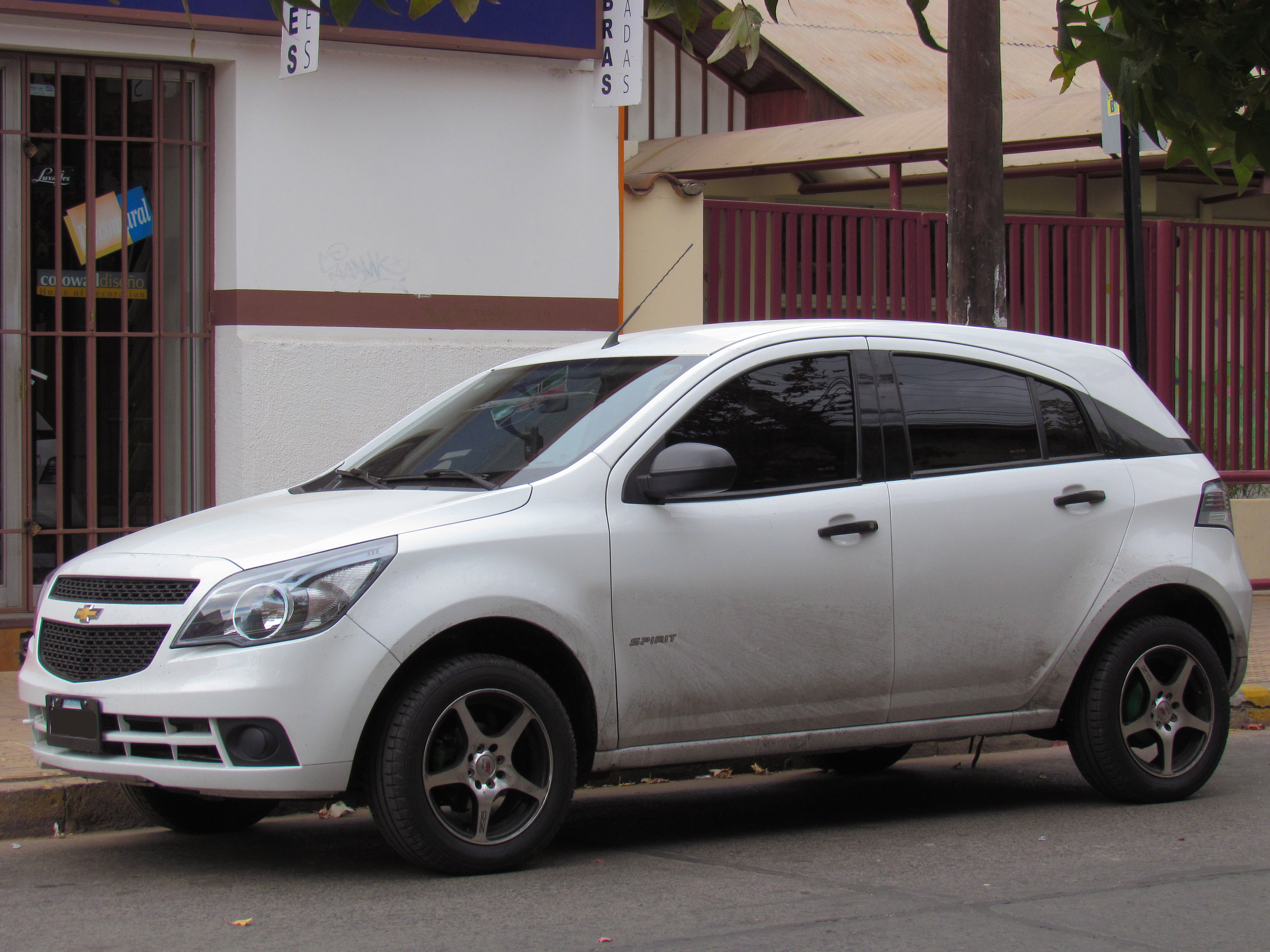 Made in Argentina, not sold here since we have the (uglier) Sail